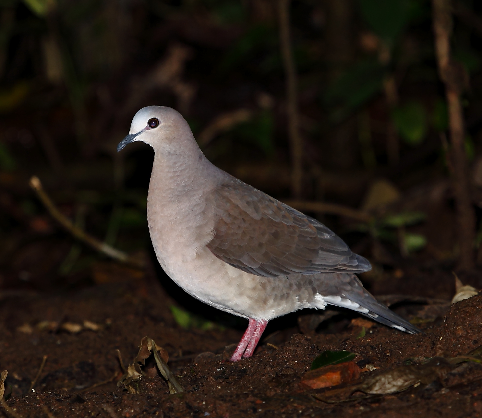 Gray-fronted dove at Joinville - Santa Catarina - Brasil